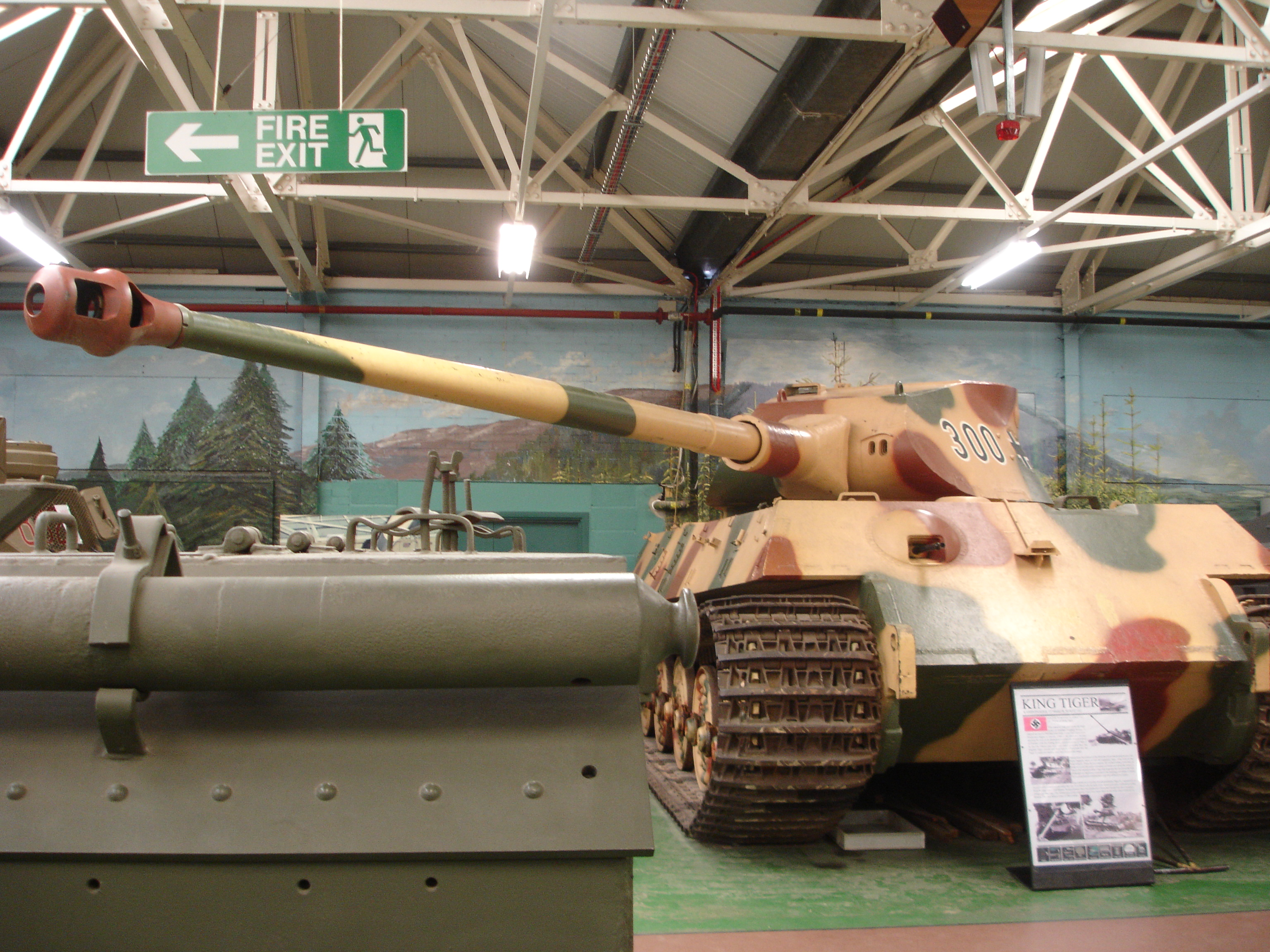 German Tiger II ("King Tiger") tank at the Bovington Tank Museum.